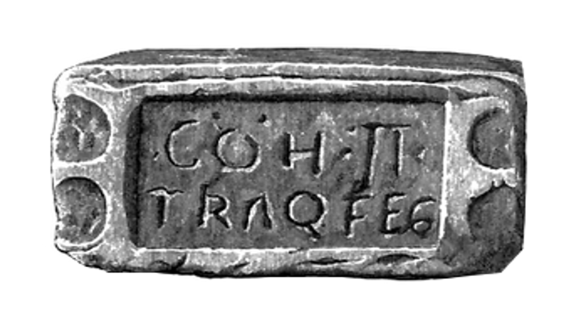 Building inscription of the Second Cohort of Thracians, find in, or before, 1859 in Moresby (GB). Now in the Great North Museum: Hancock.